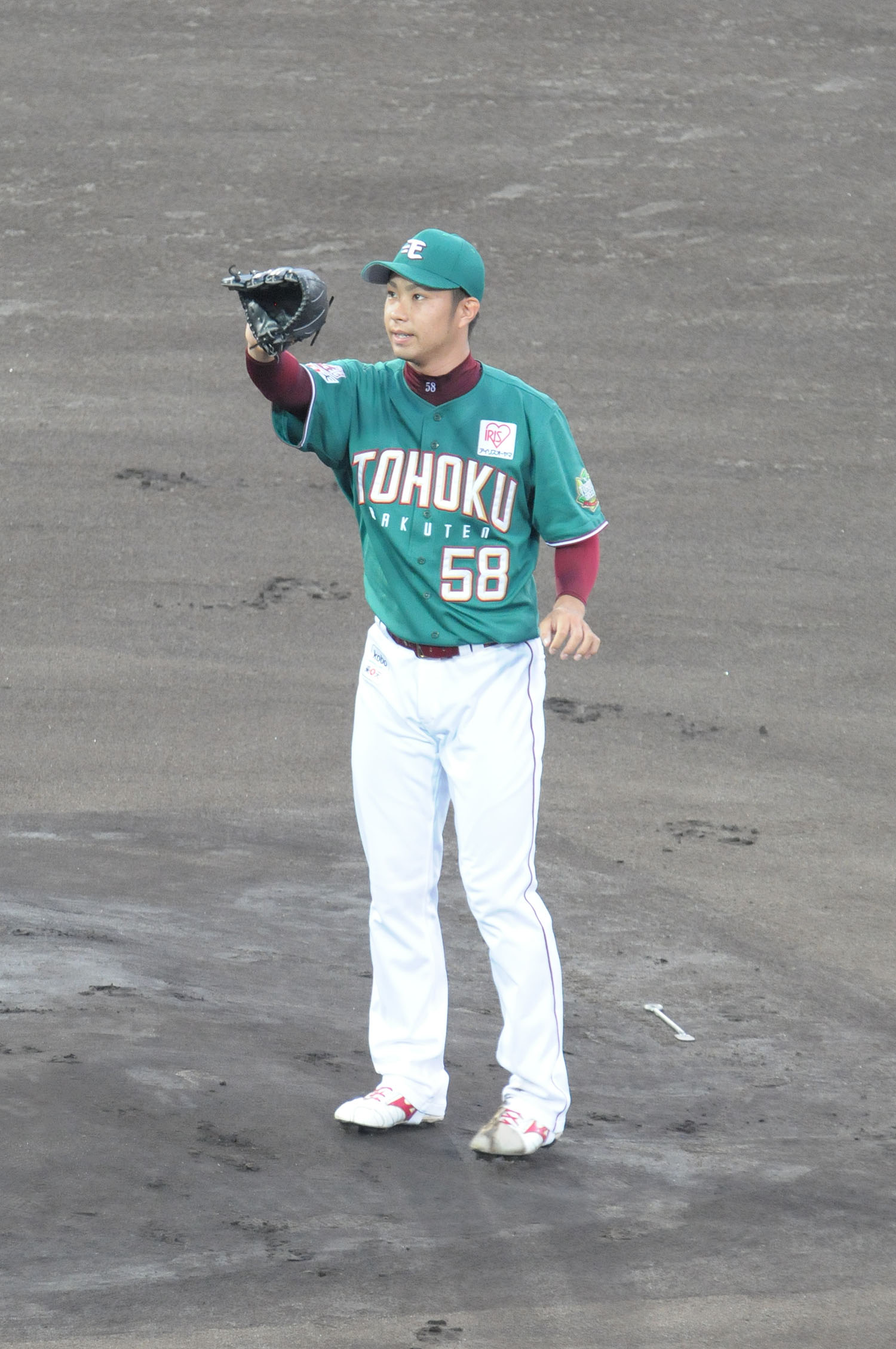 Wataru Karashima, pitcher of the Tohoku Rakuten Golden Eagles, at Akita Prefectural Baseball Stadium